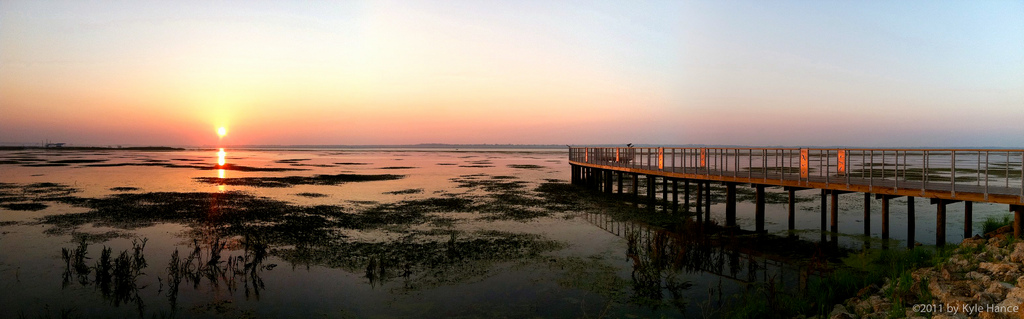 Panorama of the boardwalk at the Emiquon National Wildlife Refuge